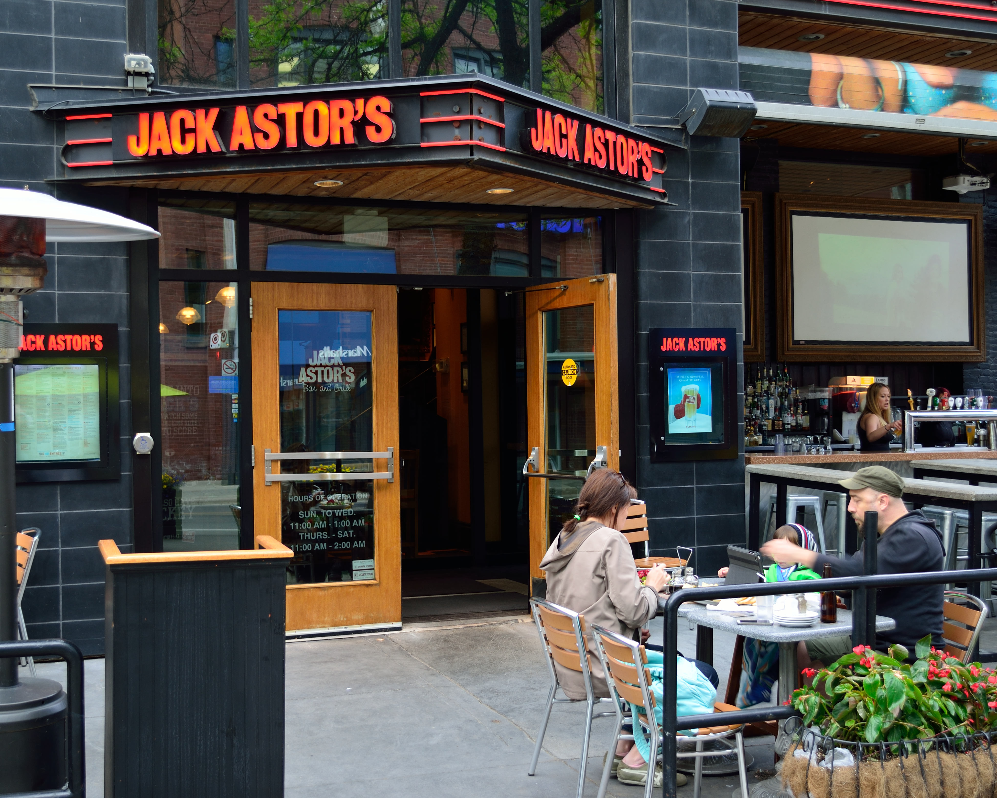 Jack Astor's - Address: 133 John St, Toronto, ON